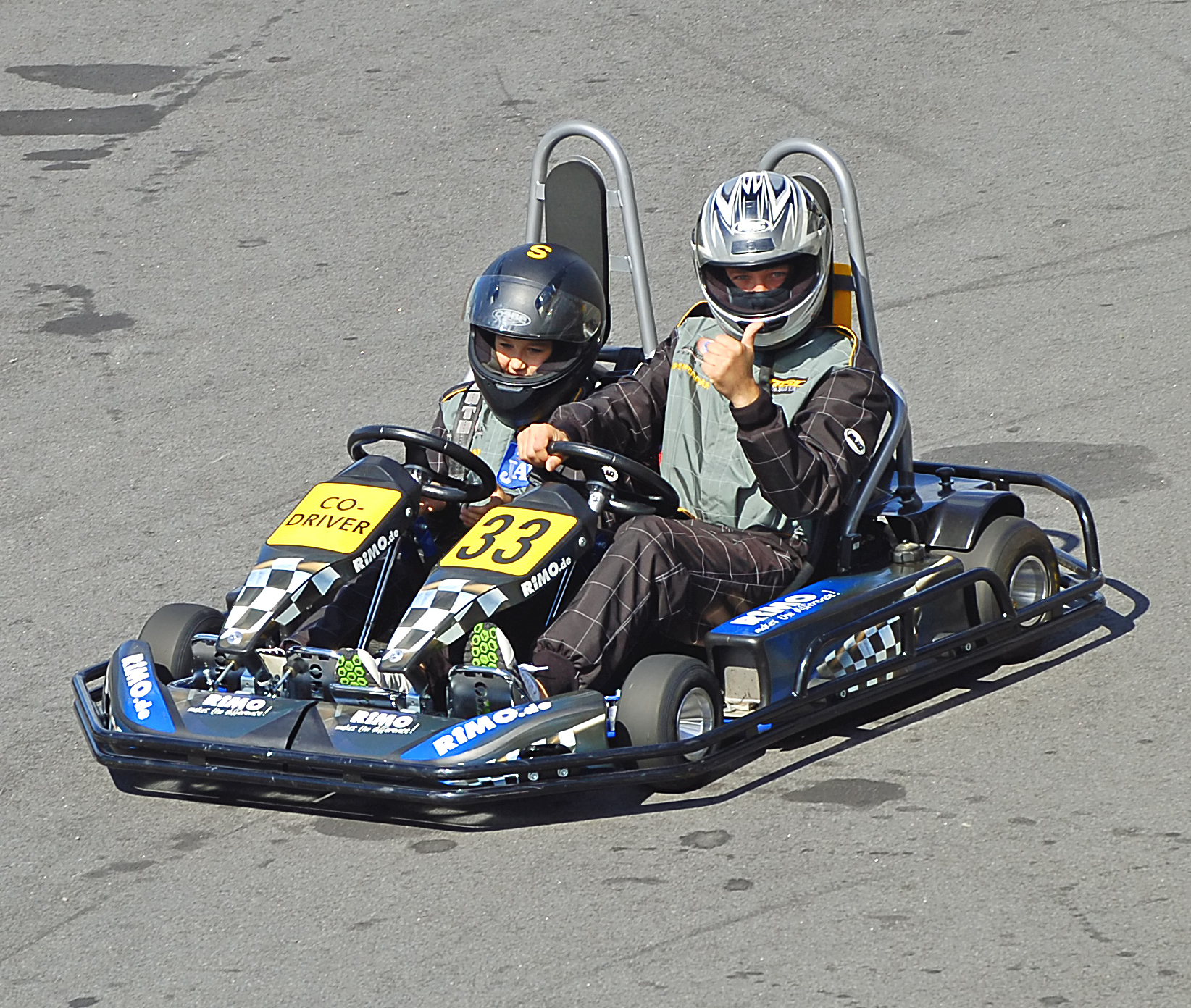 Two-seat kart